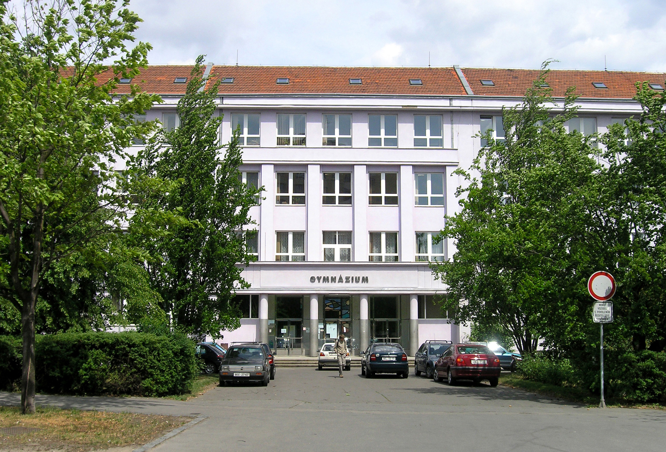 Budějovická secondary school in Michle, Prague